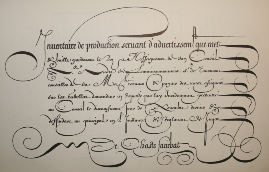 Example of calligraphy by Claude de Chaste, a French master scribe (maître écrivain) in the last third of the 17th century, reproduced as a plate in Jessen (1923).